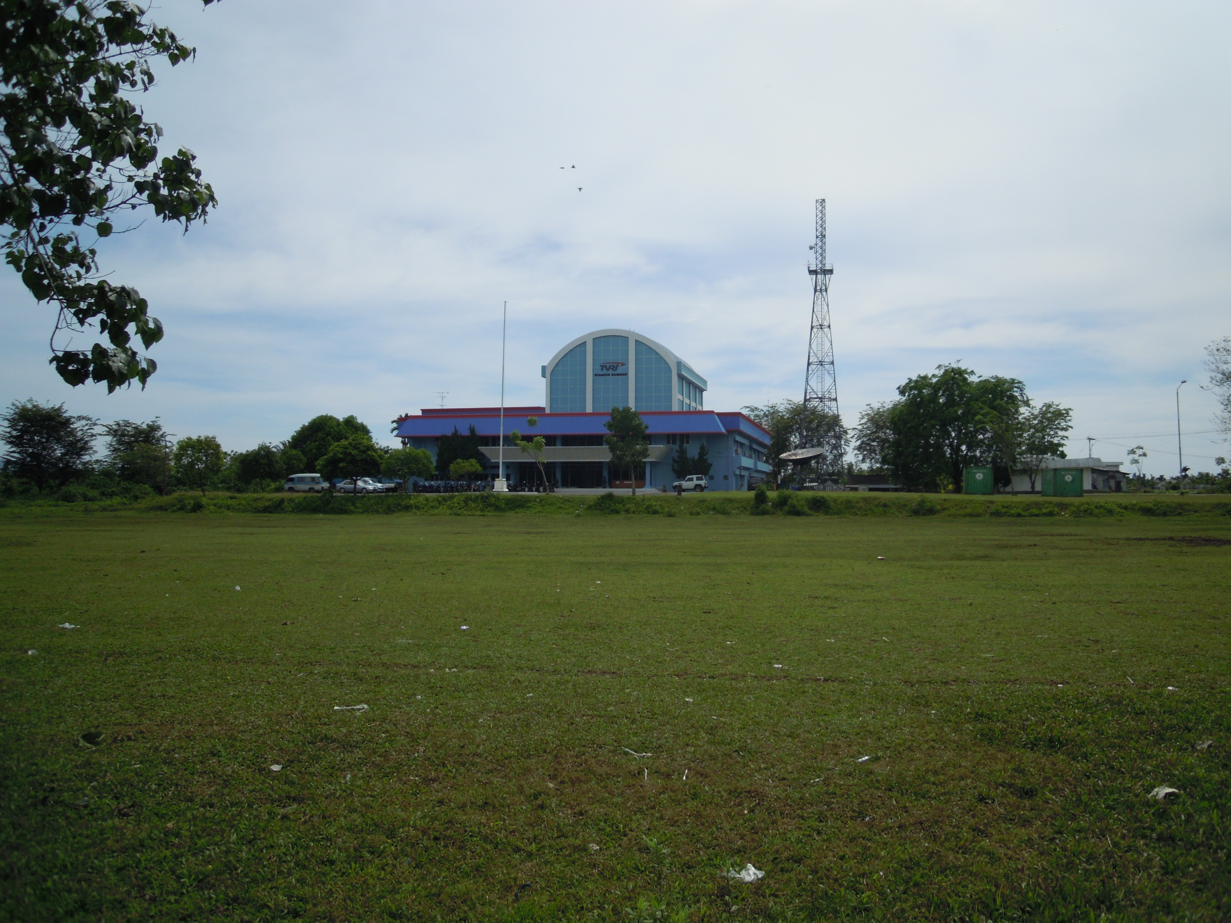 TV Indonesia-Sumatera Barat, West Sumatra, Indonesia